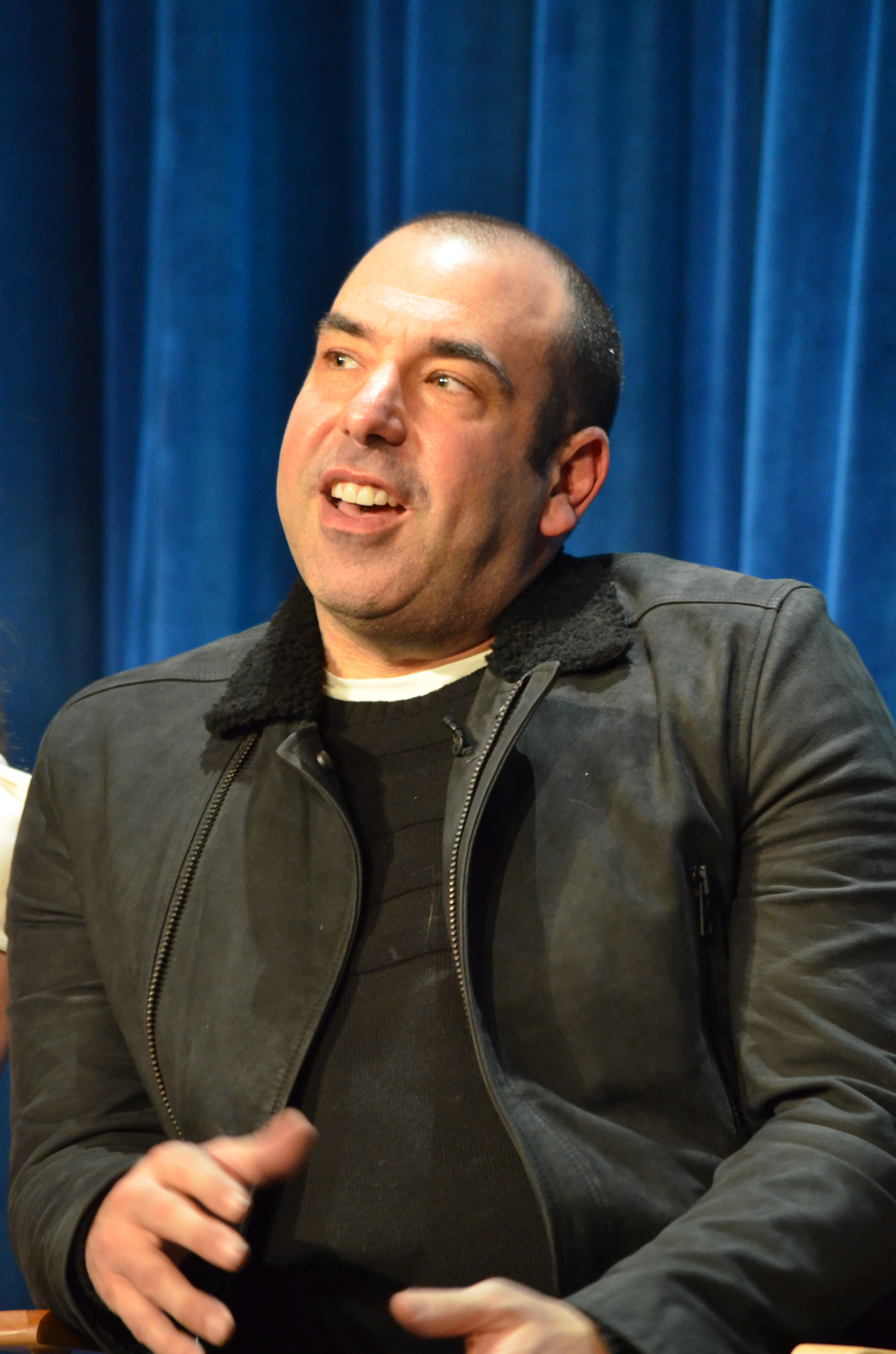 Rick Hoffman at a promotional event for the TV show Suits